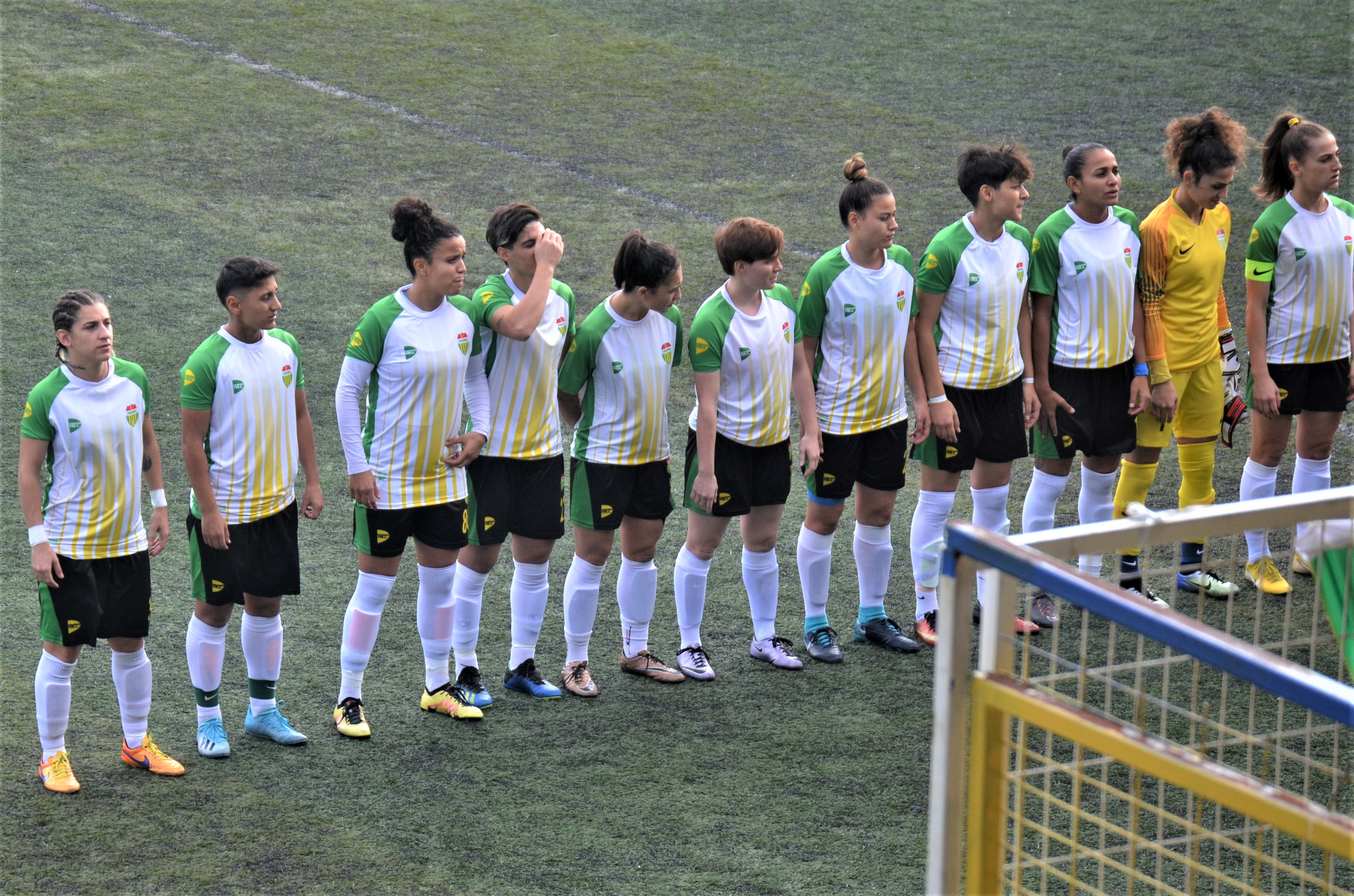 Kireçburnu Spor squad in the 2019-20 Turkish Women's First Football League's home match